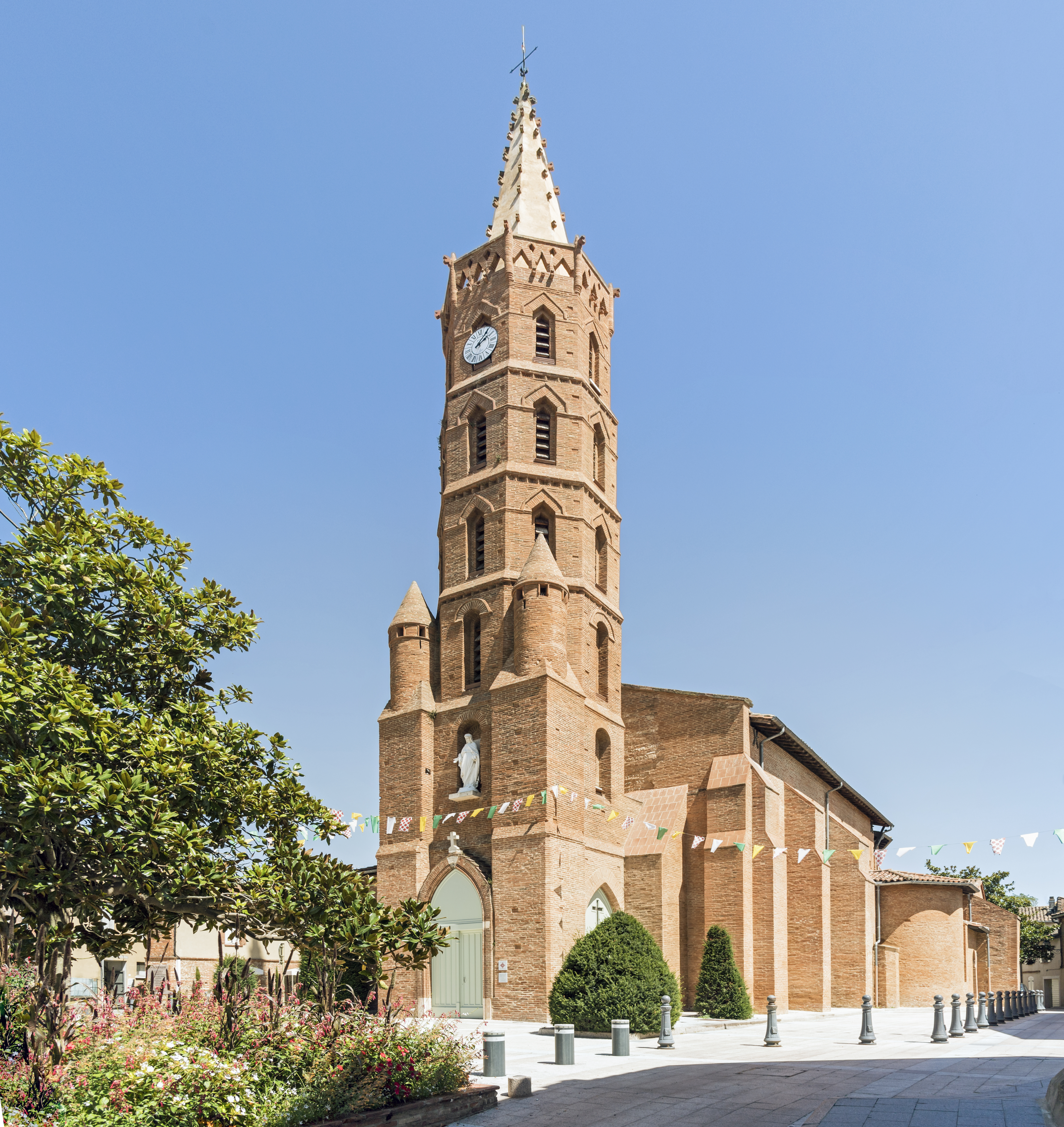 Blagnac. Church Saint-Pierre.